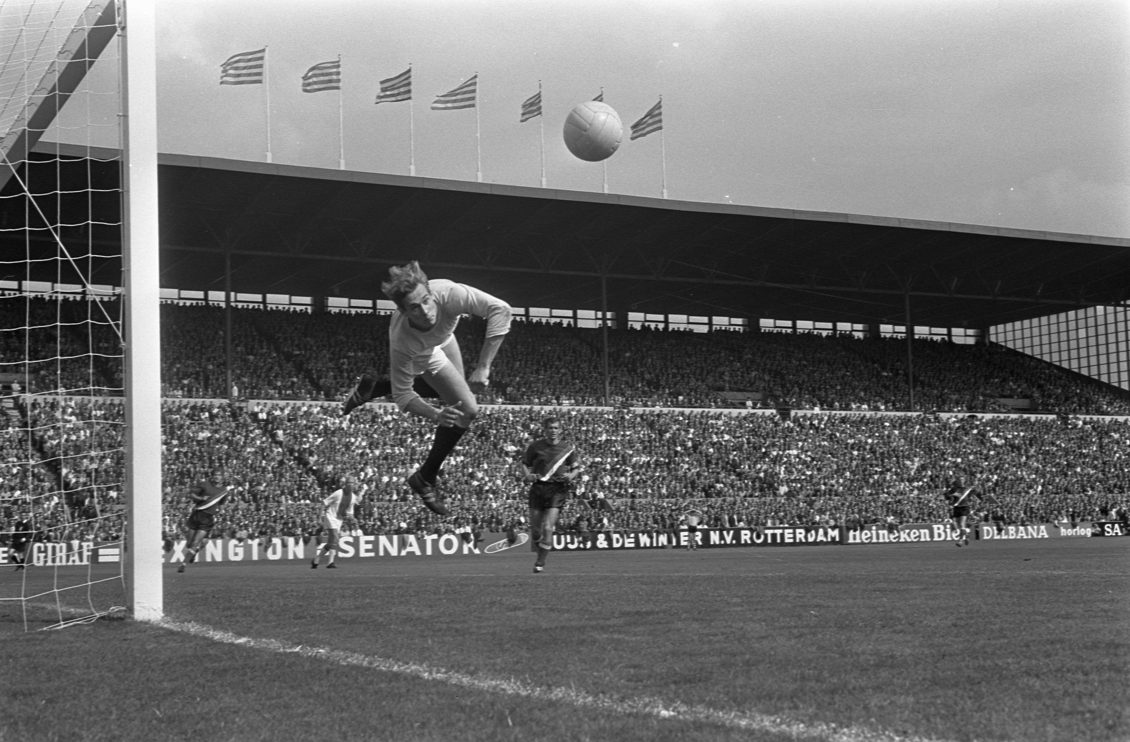 Doelman Jan van Beveren in actie tijdens de voetbalwedstrijd Sparta - Ajax, 0-1 (1 sept 1968)